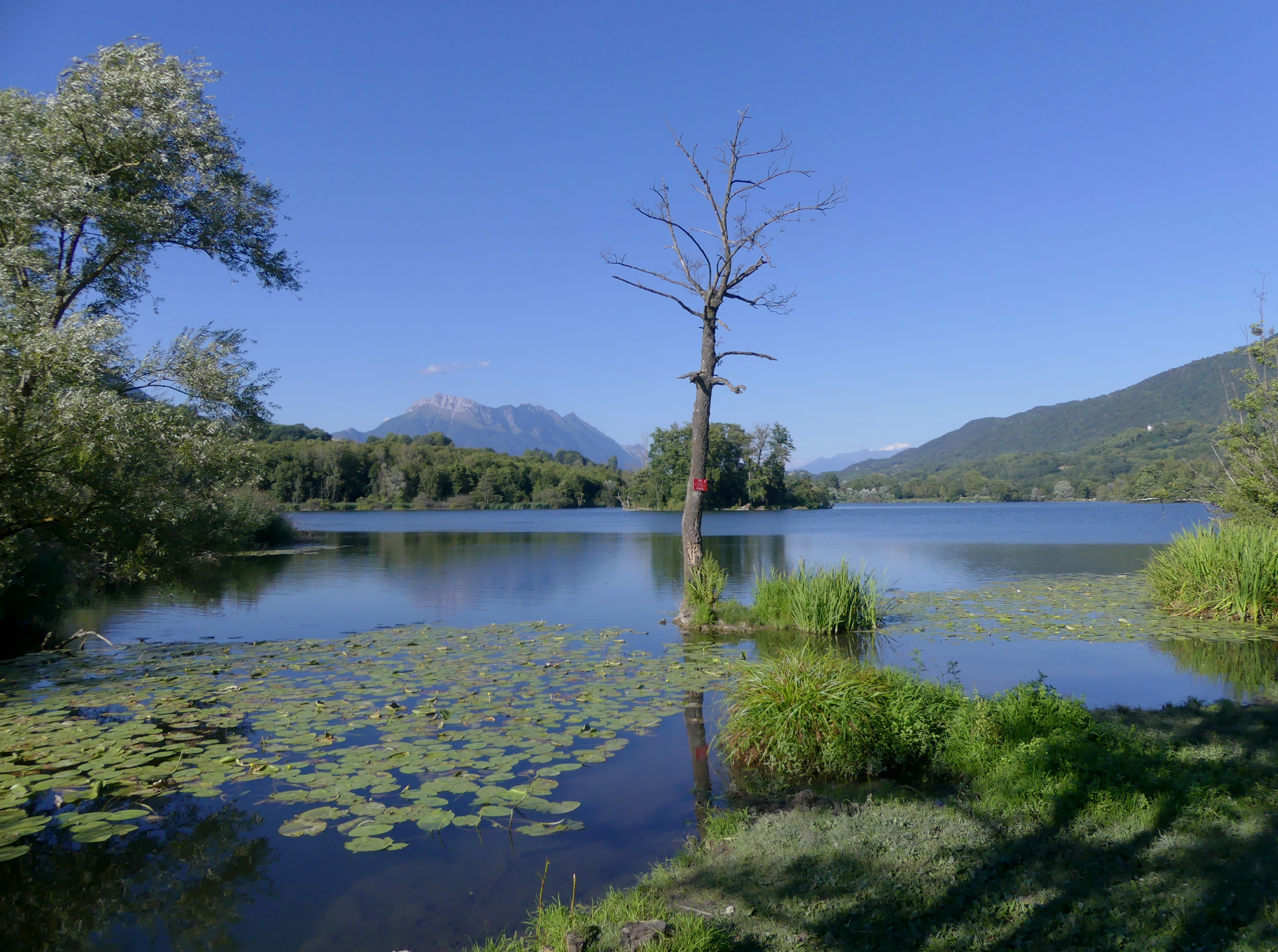 Sight of lac de Sainte-Hélène lake and its emissary Coisetan on the left, in Savoie, France.